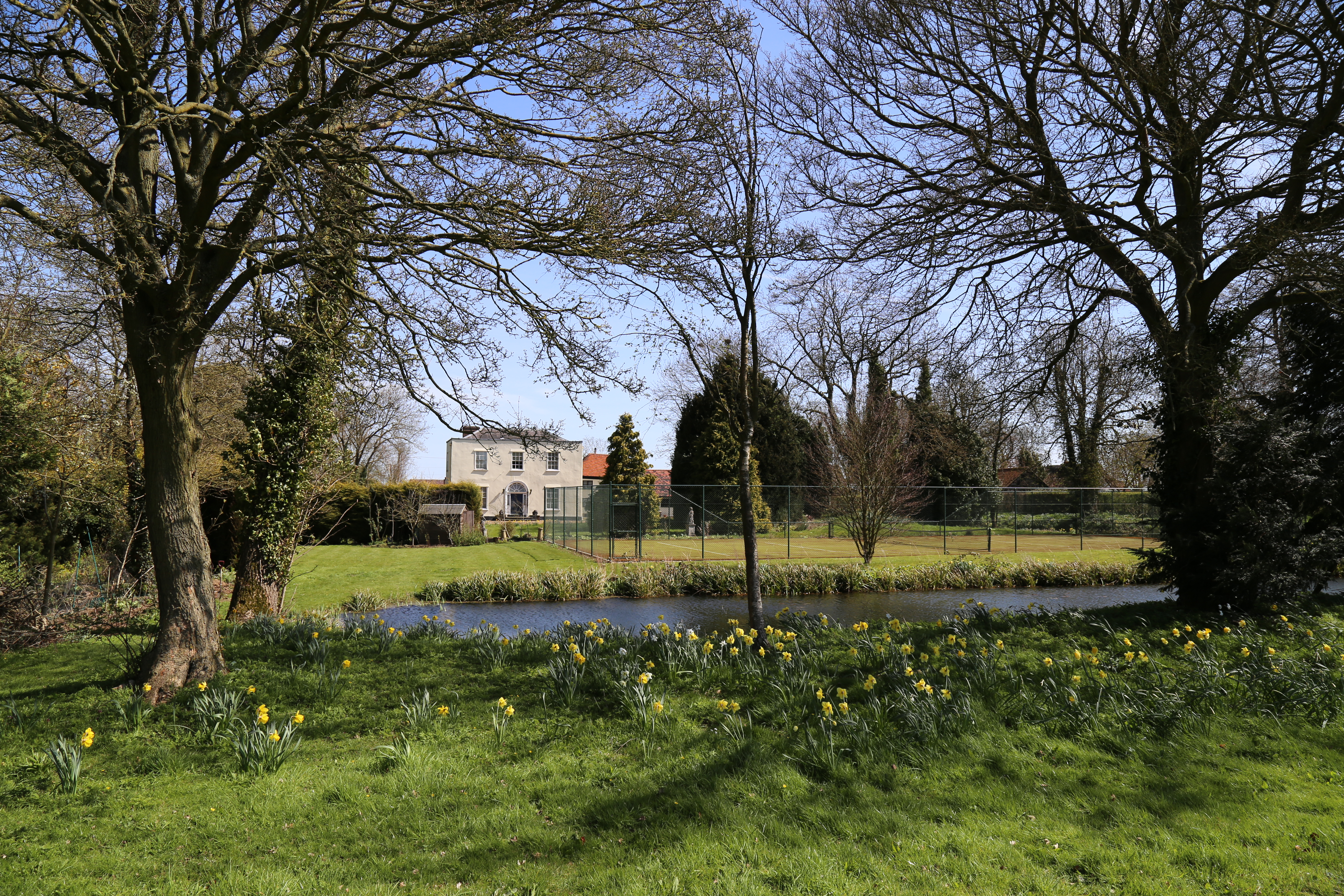 The Old Rectory, a Grade II listed house dating to the early 16th century, and its partial moat and garden, from the west over a meadow with daffodils, in White Roding, Essex, England.Software: JPEG file optimized and/or cropped and/or spun with DxO OpticsPro 10 Elite and Adobe Photoshop CS2.